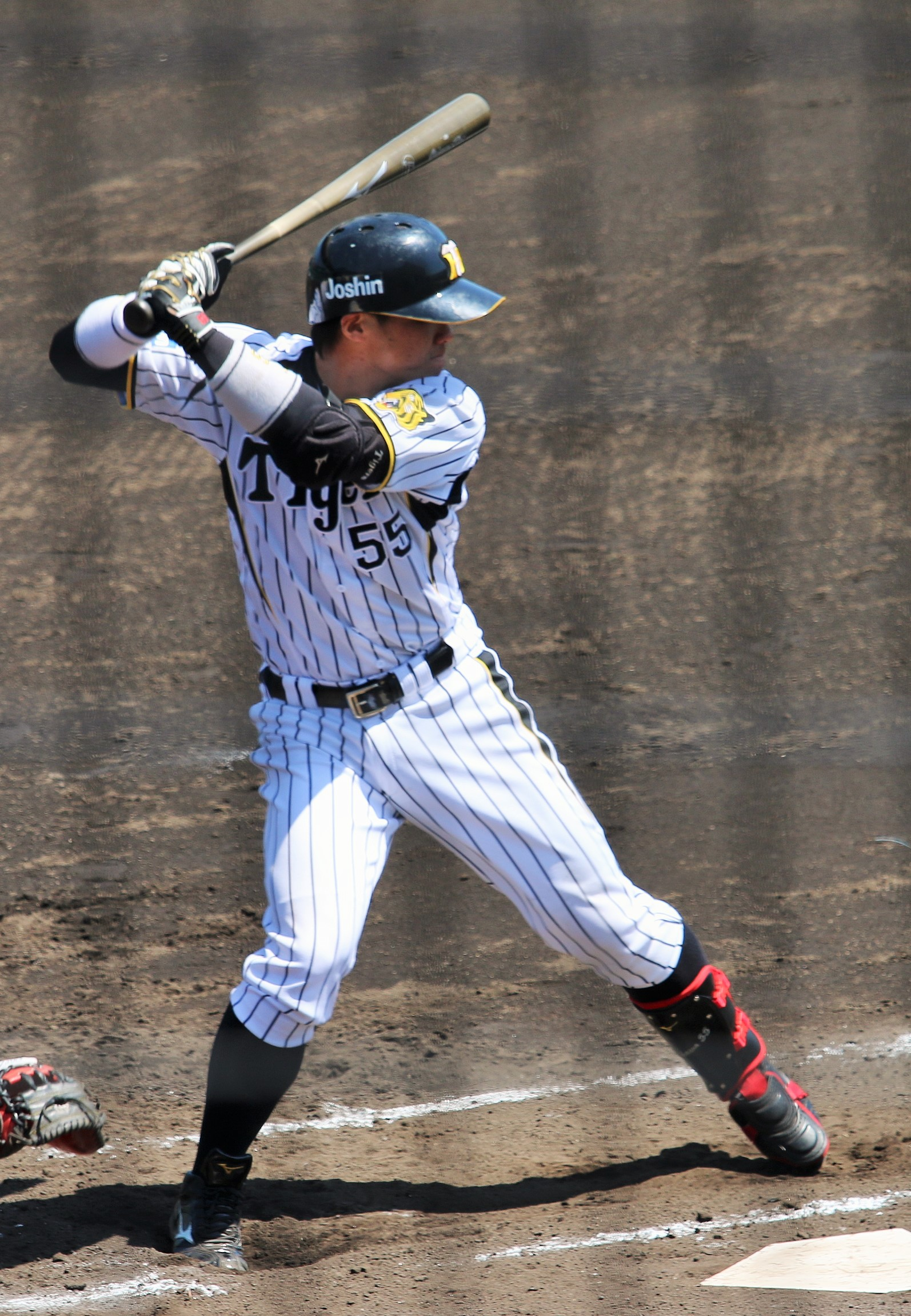 Naomasa Yokawa, infielder of the Hanshin Tigers, at Hanshin Naruohama Baseball Ground.